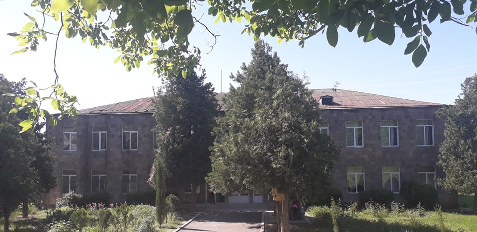 Արճիս